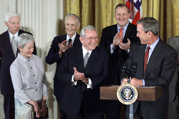 President Bush announces the nomination of Howard Baker as Ambassador to Japan Tuesday, June 26, at the White House. Next to Baker is his wife, Nancy Kassebaum. WHITE HOUSE PHOTO BY PAUL MORSE